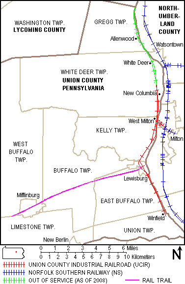 Map of Union County Industrial Railroad in Union County, Pennsylvania, United States